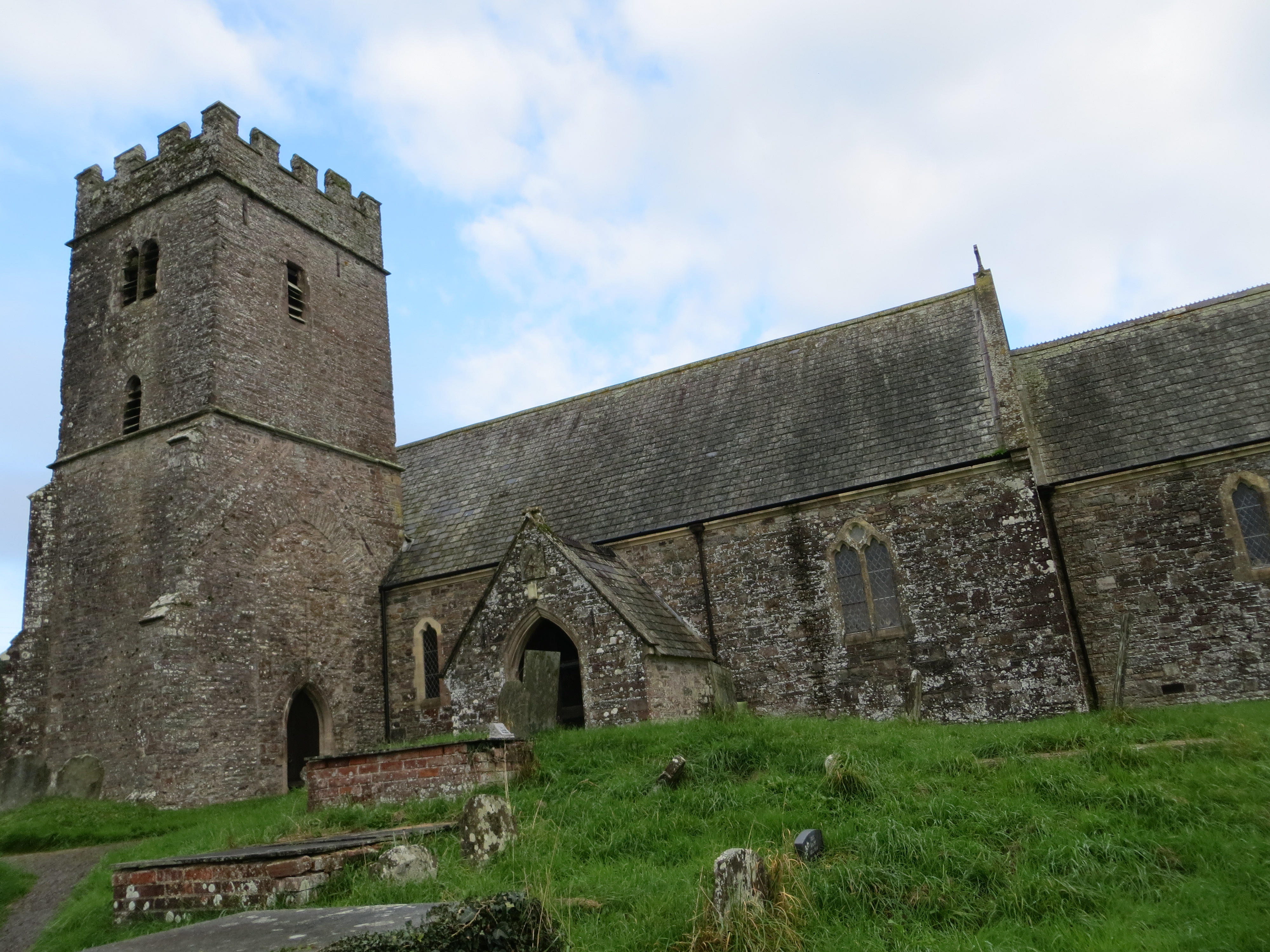 Nave, west tower and south porch of St Michael's parish church, East Buckland, Devon, seen from the southeast